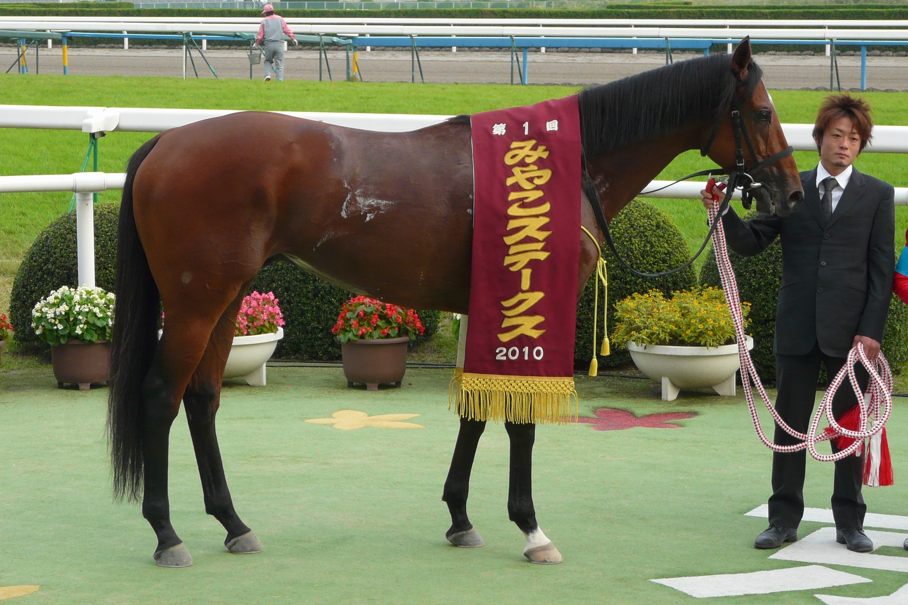 Transcend-horse20101107